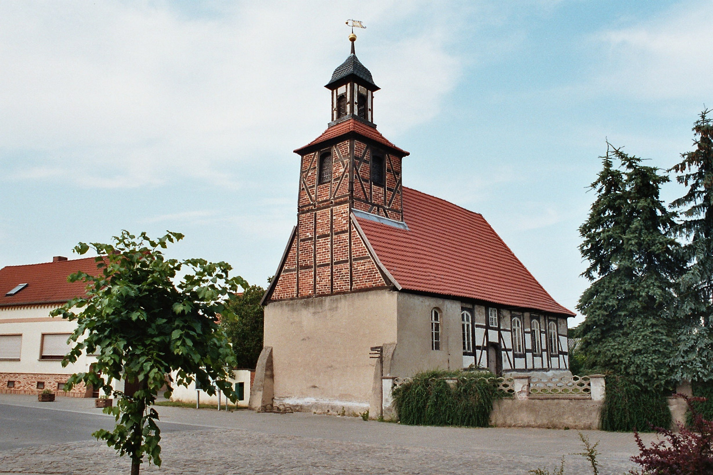 Ranies (Schönebeck), the village church St. Luke This is a photograph of an architectural monument. 60924